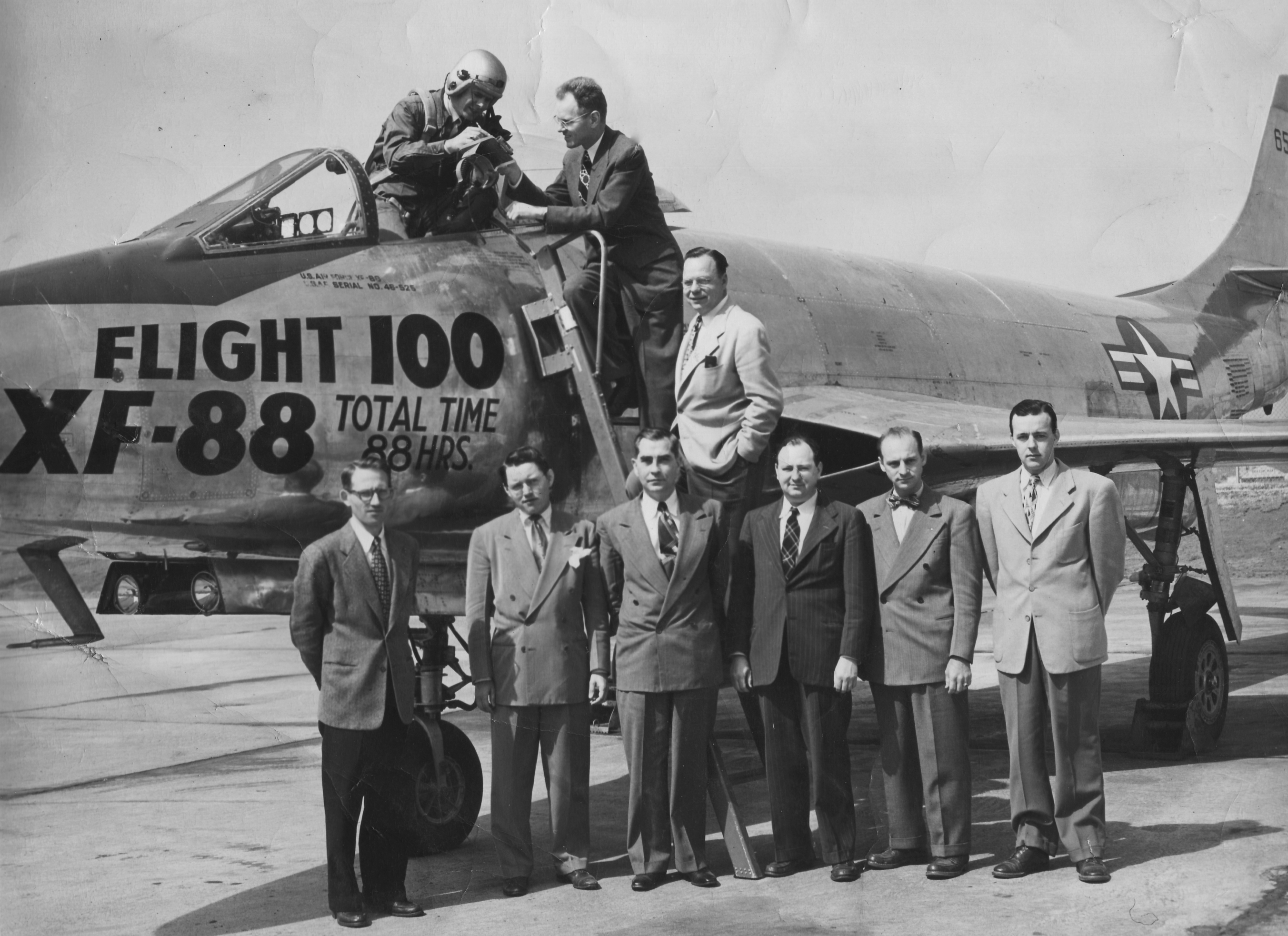 XF-88 team stands after Flight 100. David S. Lewis, jr., Chief of Aerodynamics stands far right.